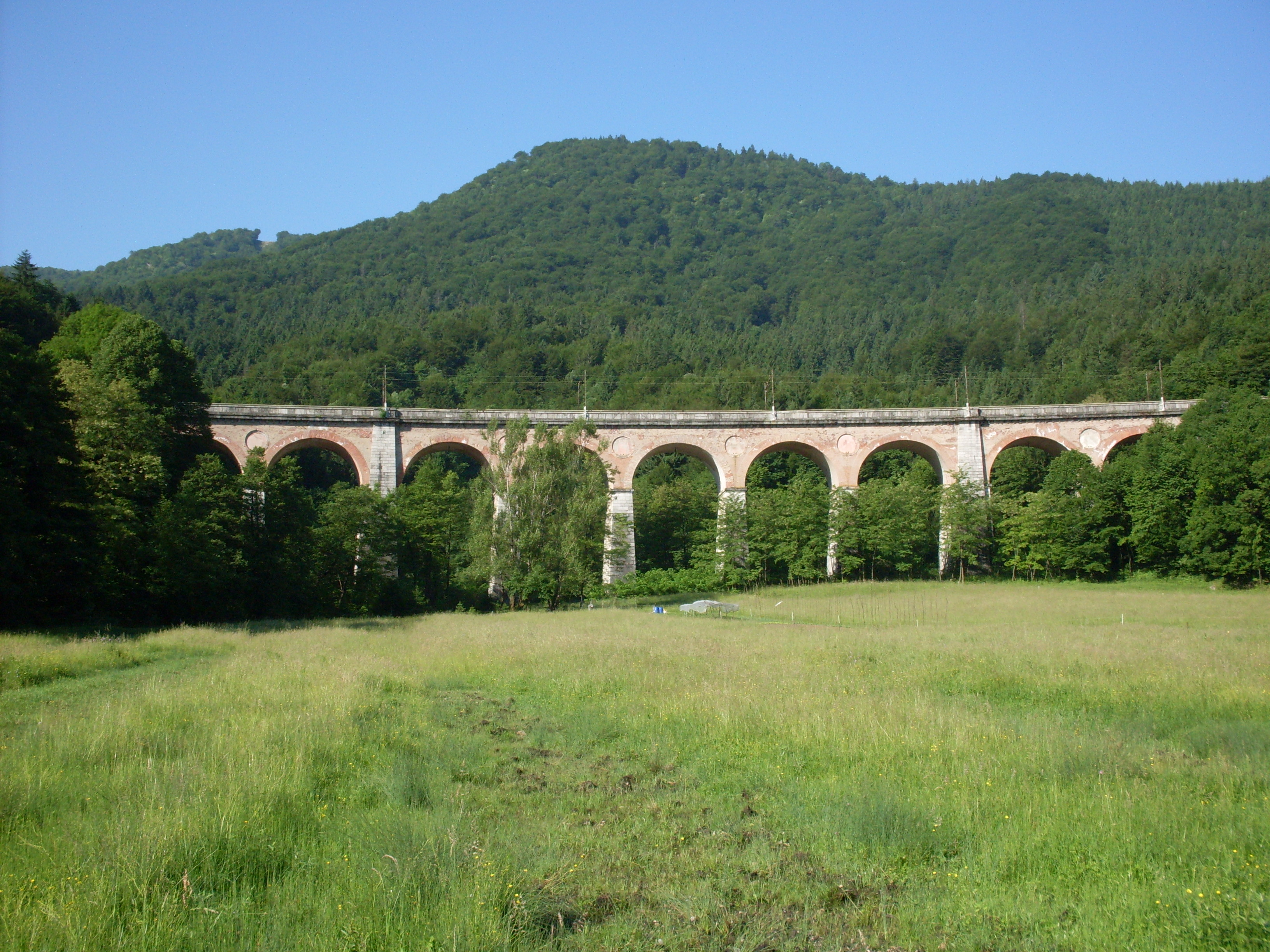 North-eastern side of the railway viaduct, called Dolinski most or Jelenov viadukt or Hirschthaler Viadukt in German (meeaning Deervalley viaduct), near Borovnica, Slovenia. The viaduct was built in 1856 and is still in use today.